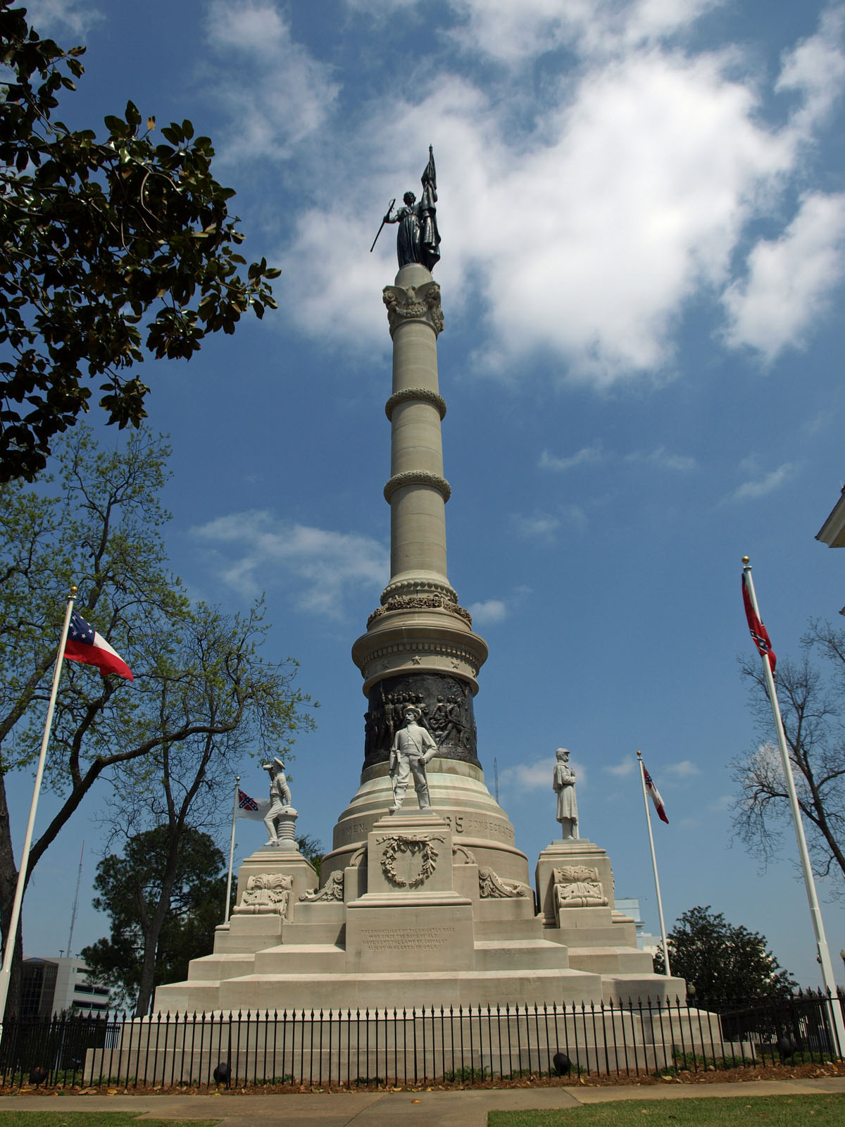 Confederate Memorial on the grounds of the Alabama State Capitol